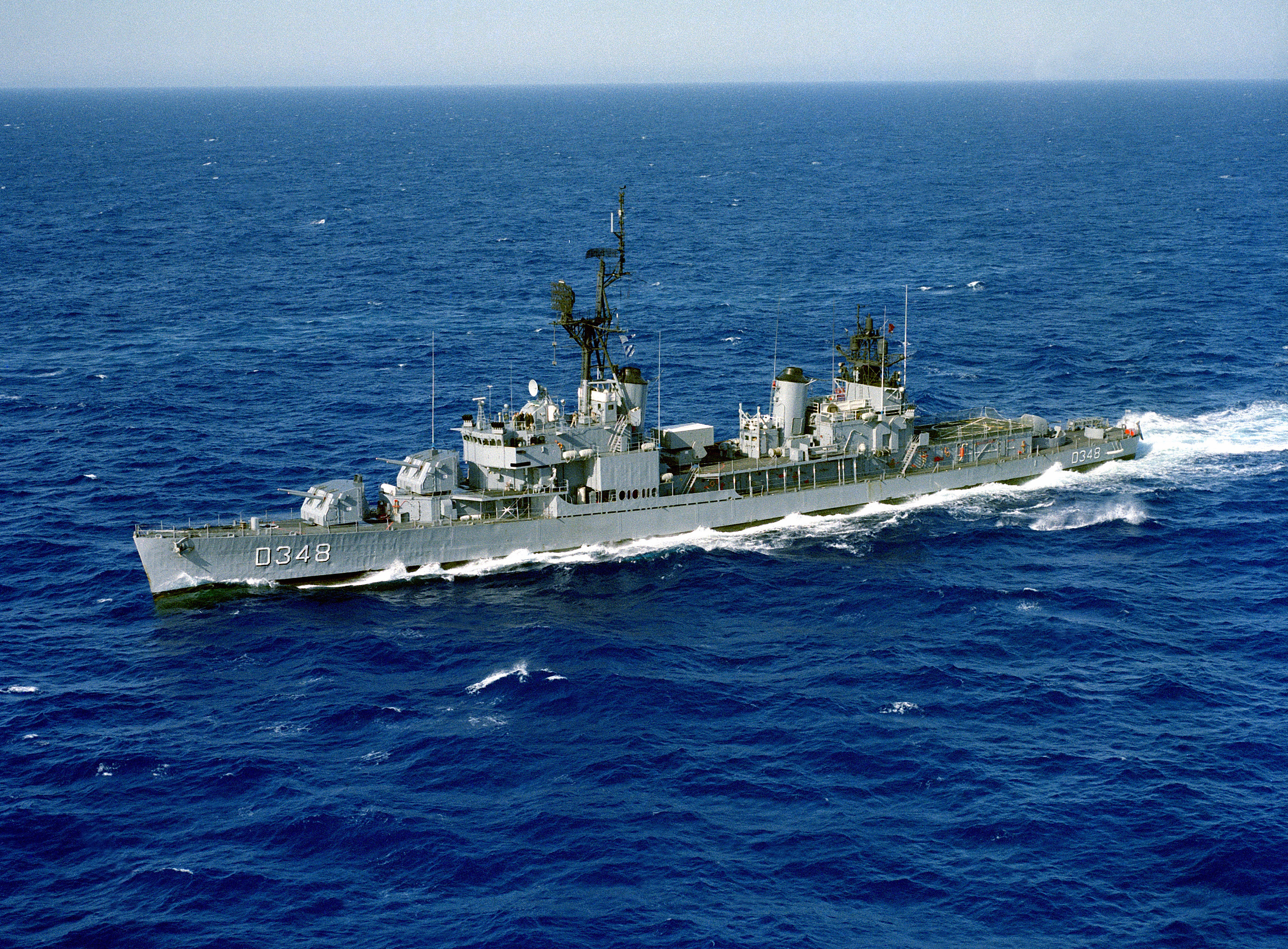 A port view of the Turkish destroyer SAVASTEPE (D-348) underway during exercise Distant Drum.